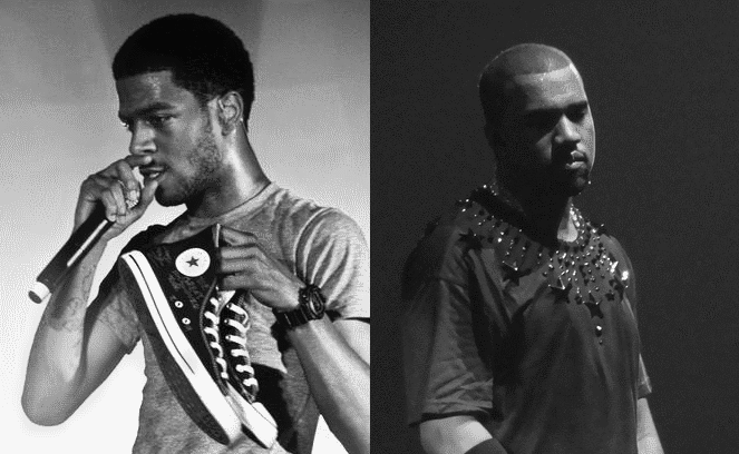 The two members of Kids See Ghost: Kid Cudi and Kanye West